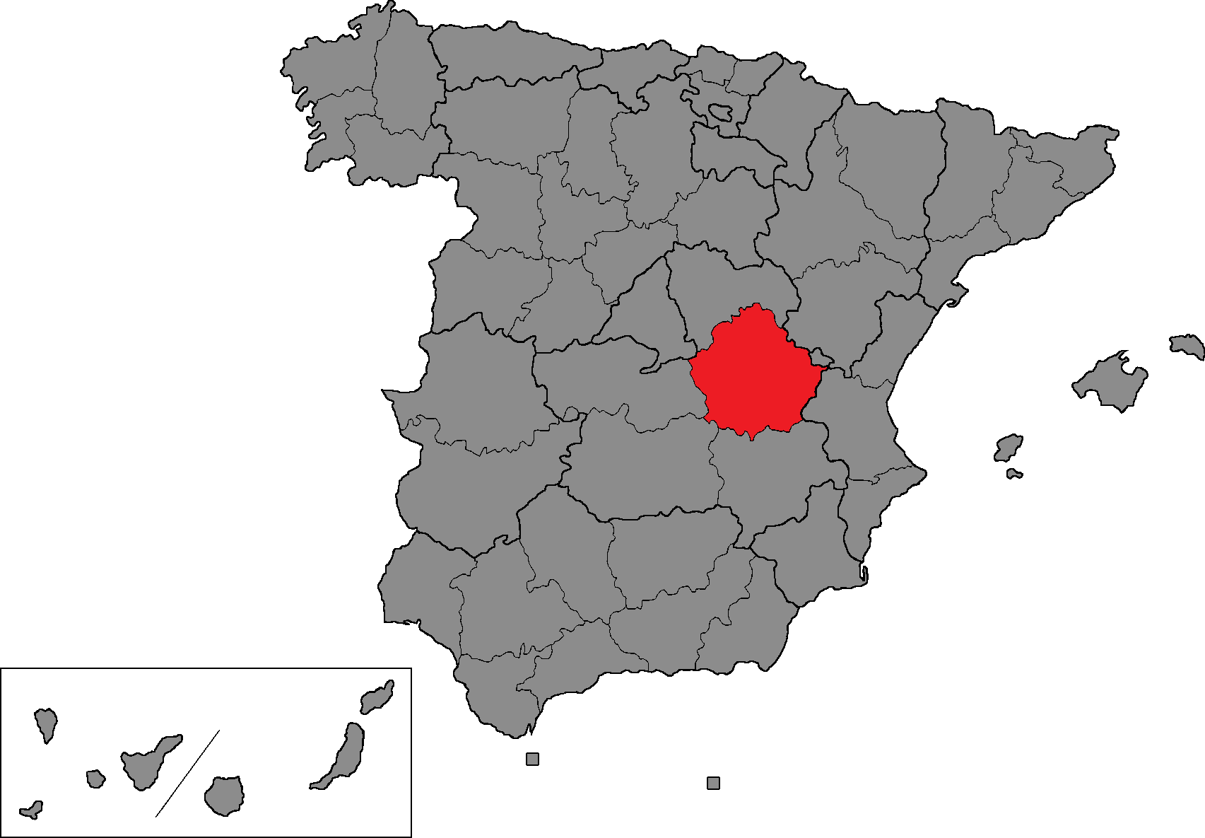 Spanish Congress of Deputies district of Cuenca.